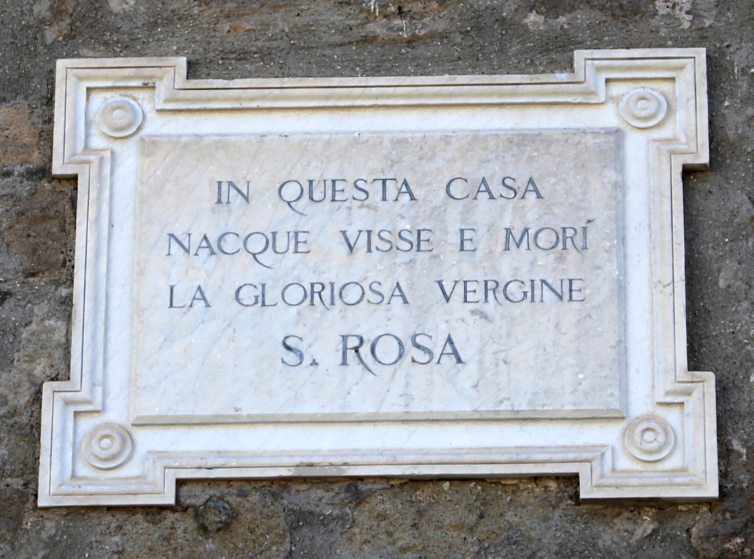 Santa Rosa (Viterbo)